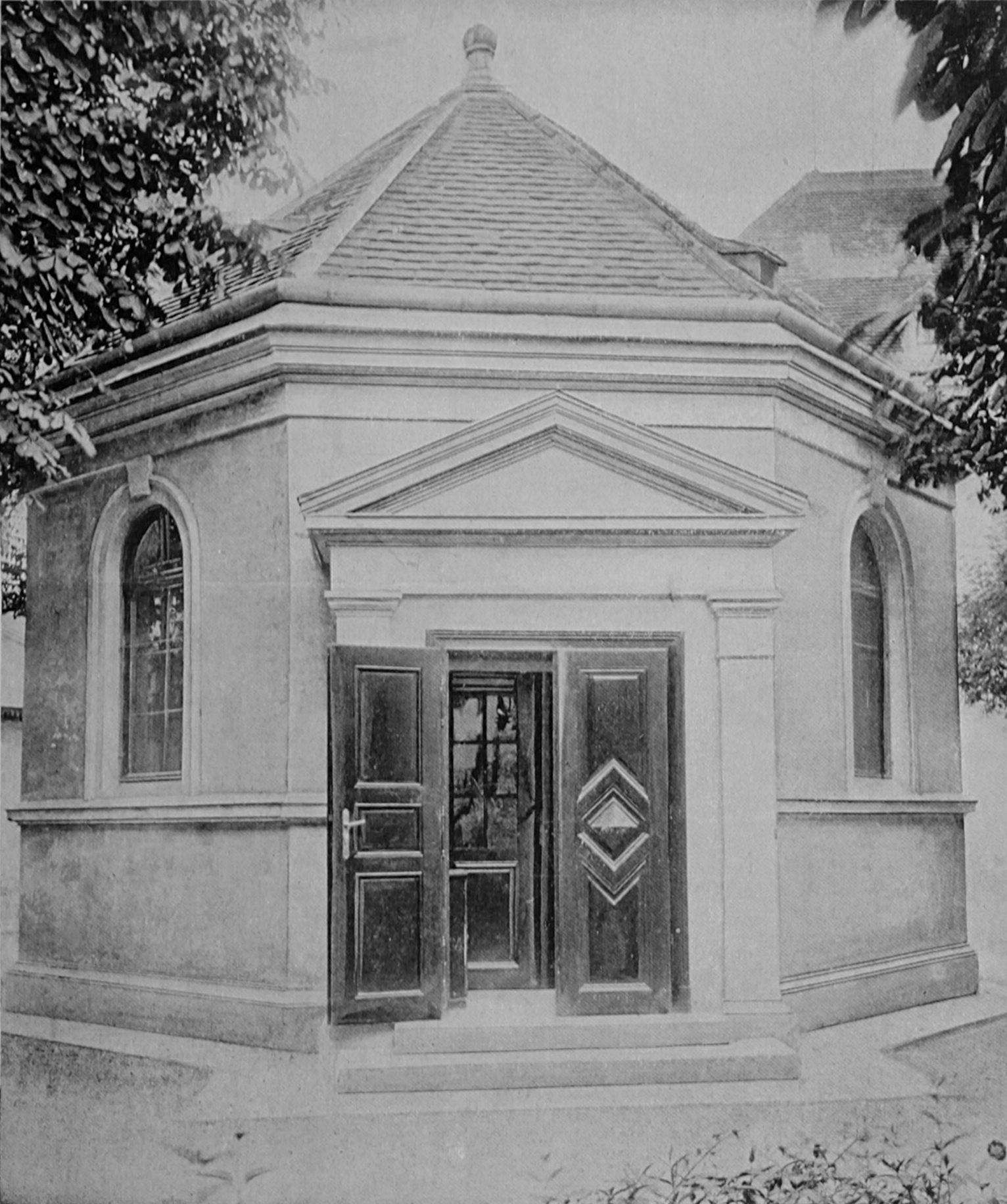 Exterior view of the synagogue in the old AKH (general hospital), now campus of the University of Vienna, published by architect Max Fleischer in 1903.